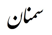 The city name "Semnan" in Persian callipgraphy.